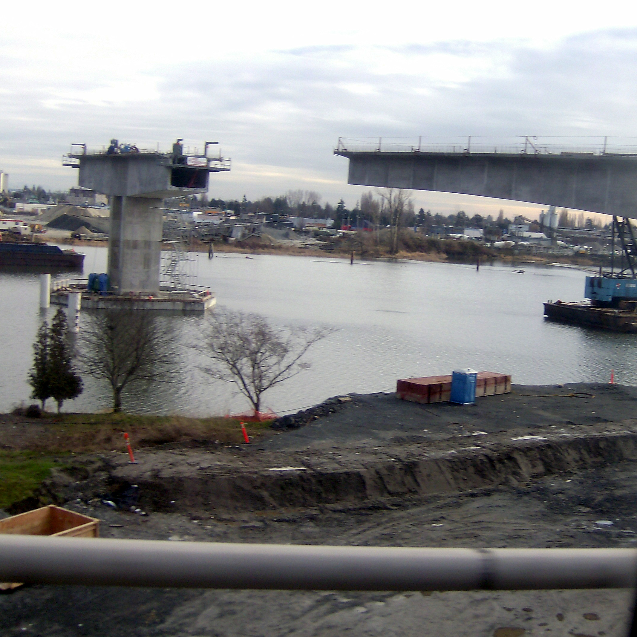 Construction of the middle arm bridge at YVR as part of the .